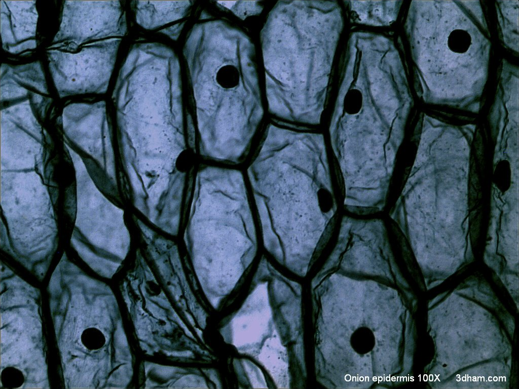 Onion epidermis Magnified 100 times